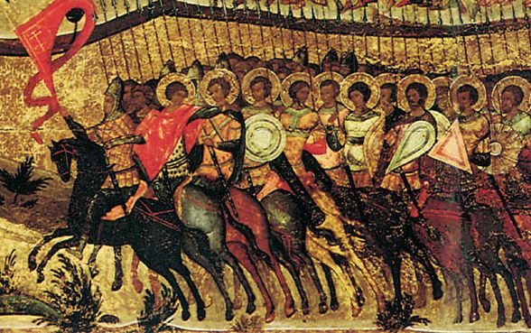 Detail of Blessed is the Host of the King of Heaven (alternatively known as Church Militant). Russian icon, ca. 1550 - 1560. Tretyakov Gallery. This icon is traditionally perceived as an allegorical representation of the conquest of the Kazan khanate.